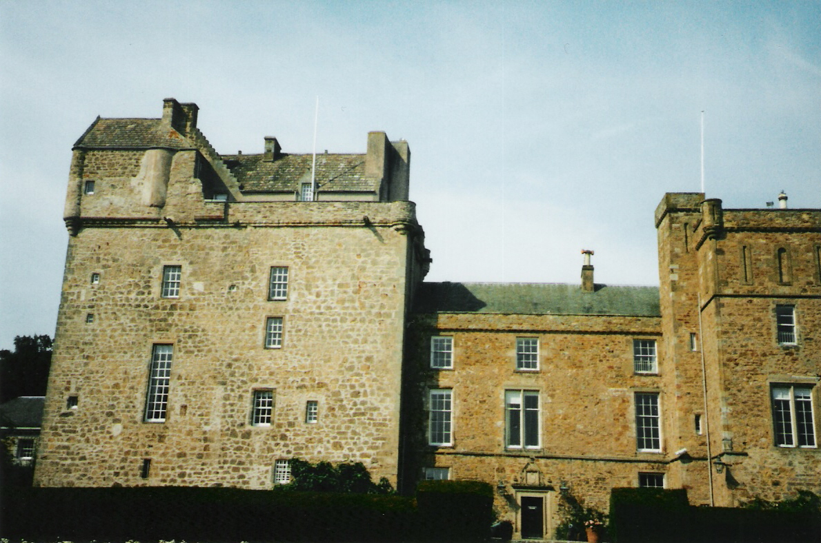 Private photo taken by me with no copyright attached. Lennoxlove (or Lethington) near Haddington.